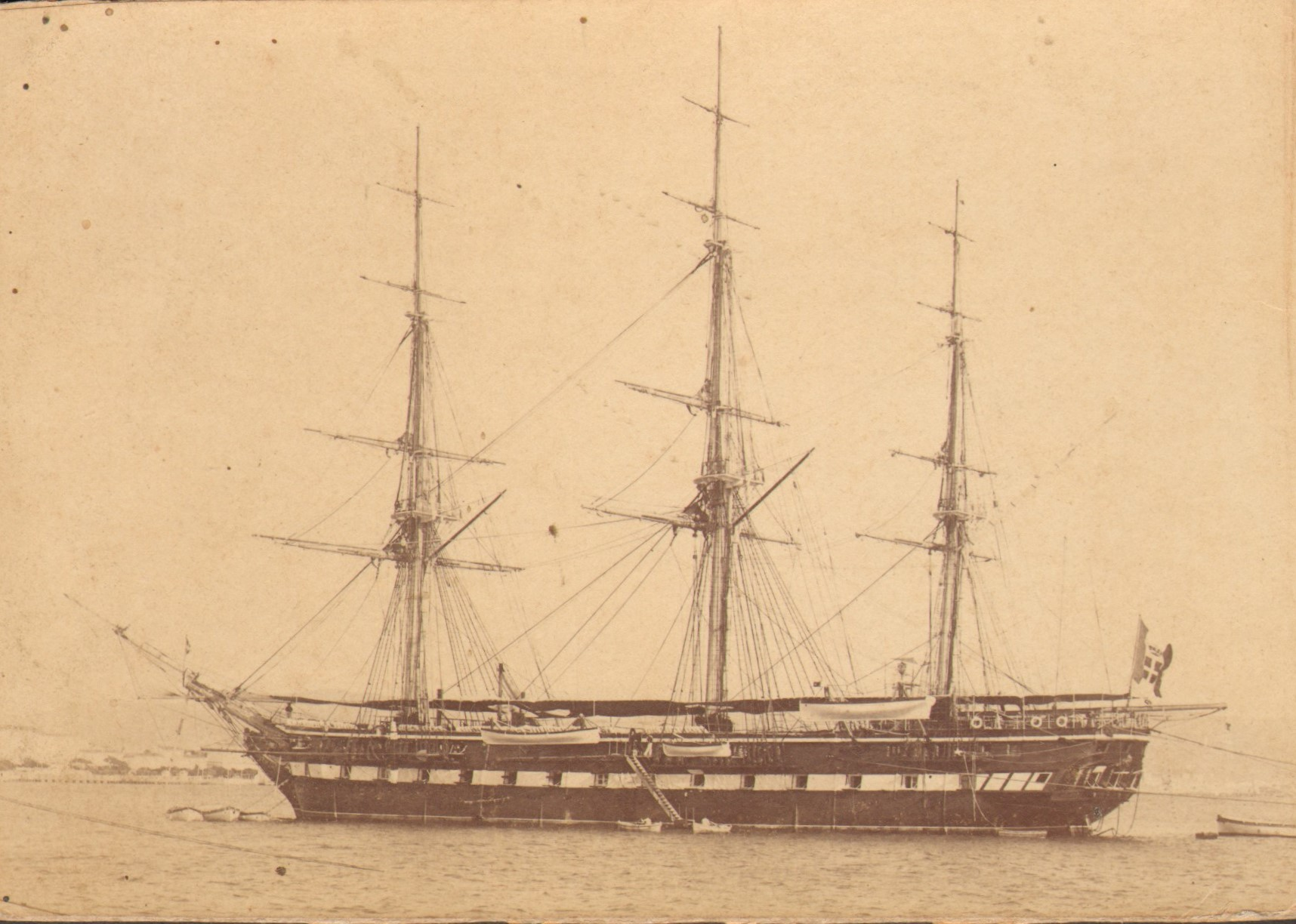 RN Cristoforo Colombo. The original picture, scanned by Emiliano Burzagli, belongs to the Private archive of Burzaghi family, Italy.